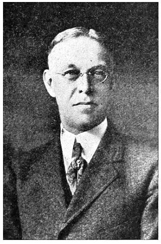 Photograph of Harry P. Davis, Westinghouse vice president and founder of KDKA radio